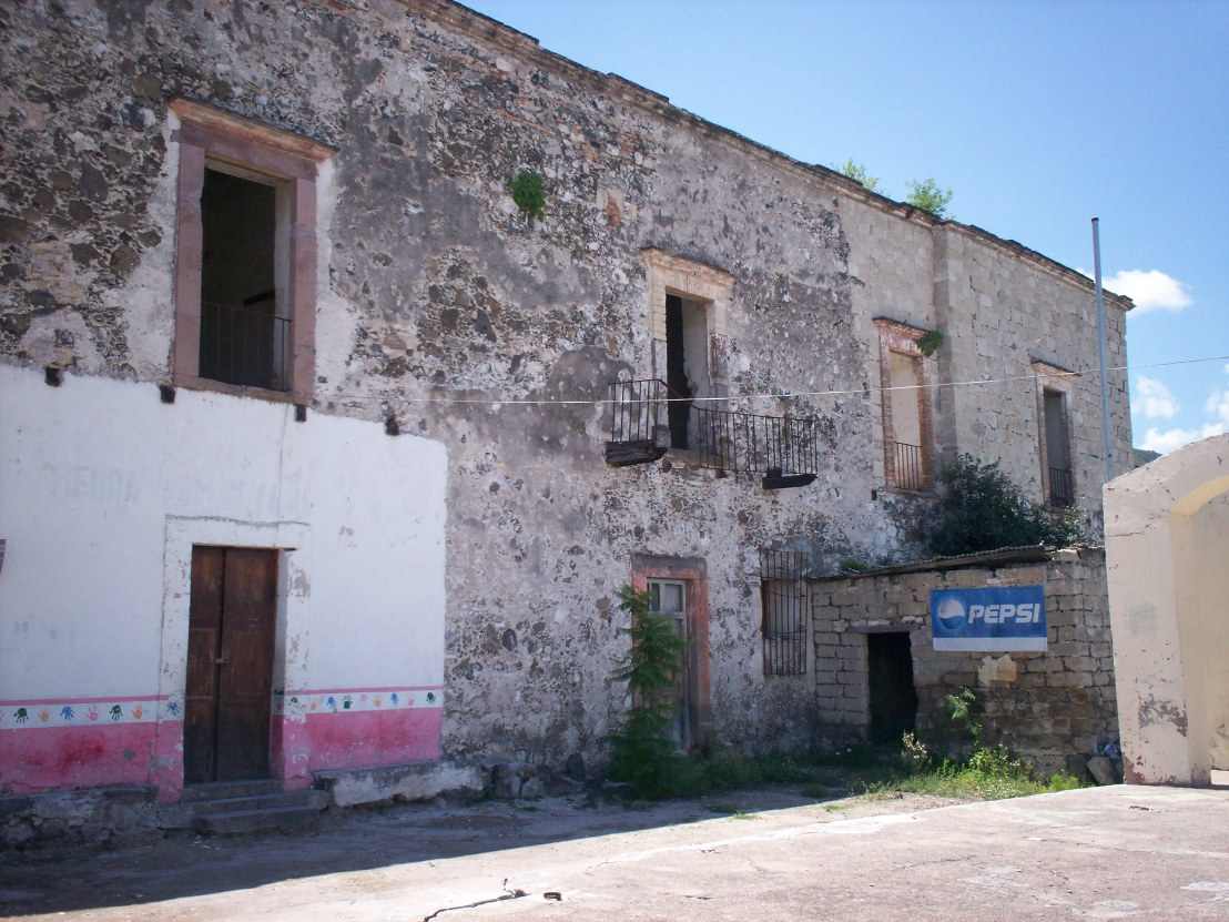 This picture is a partial view of the front of the Hacienda of Guaxcama. It was taken by Babytexcoco in July of 2007.